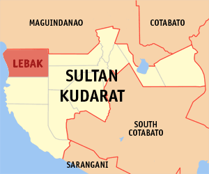 Map of the Sultan Kudarat showing the location of Lebak